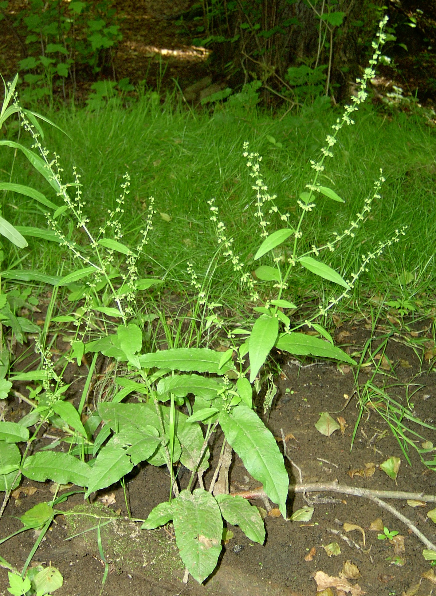 Rumex sanguineus, forest in Ina valley near Goleniow (NW Poland)